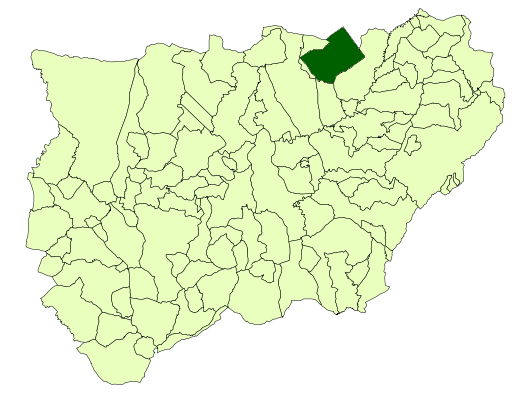 Situation of the municipality of Montizón (Jaén, Spain).